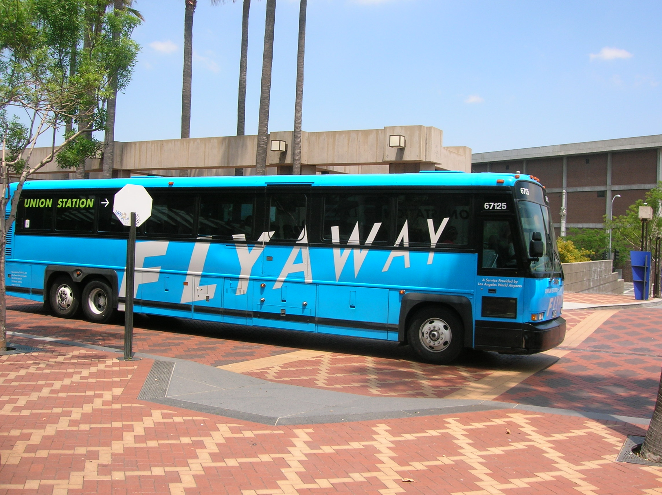 The FlyAway to LAX arrives at Union Station